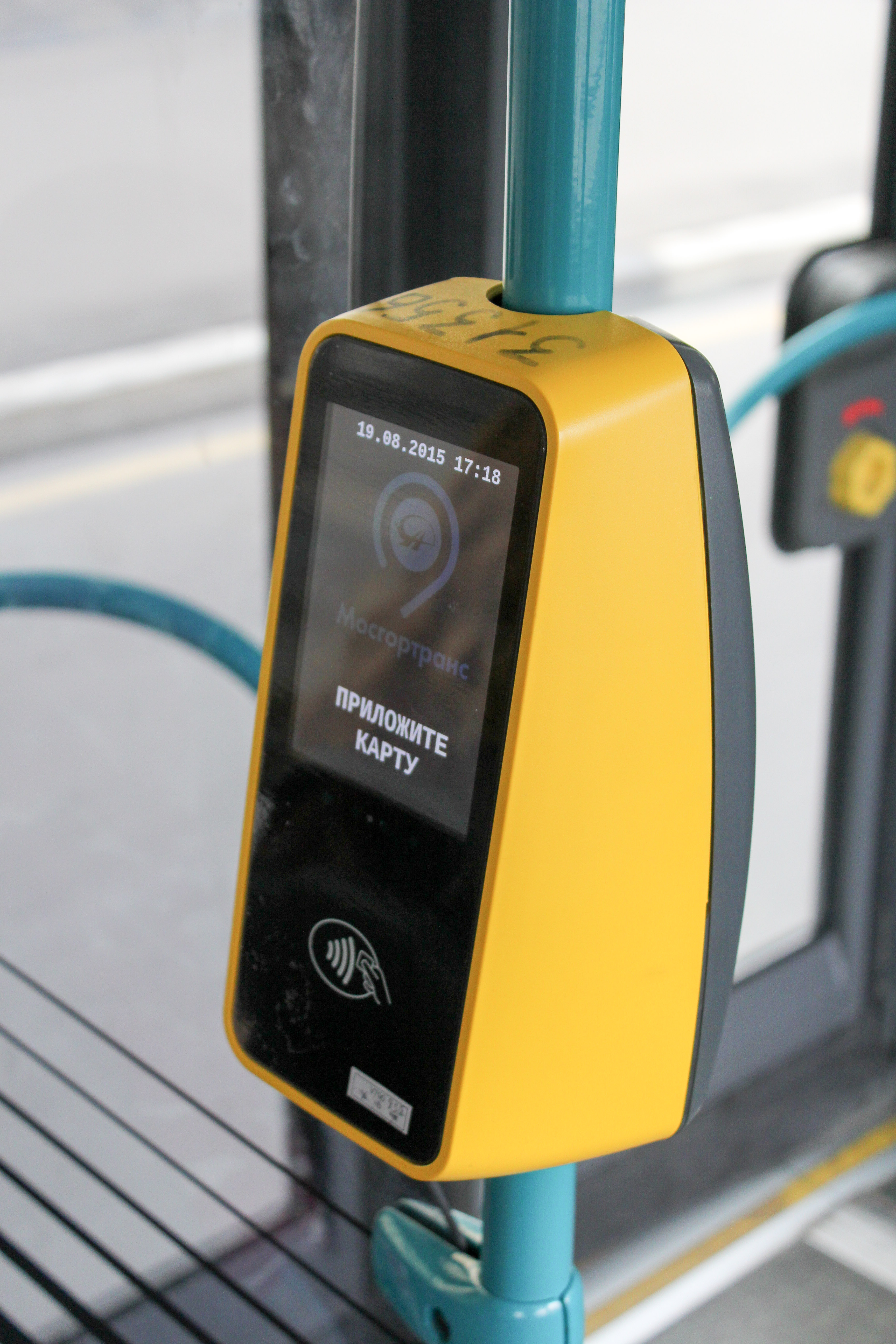 Smart card machines in Bus in Moscow